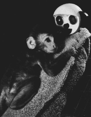 Fig14 Typical response to cloth mother surrogate in fear test